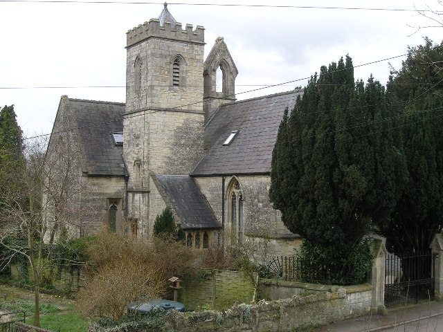 Clandown (Somerset) Holy Trinity Church. This Victorian church is now converted into two houses.